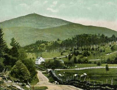 Mount Kearsarge in 1910, North Conway, NH; from an old postcard.